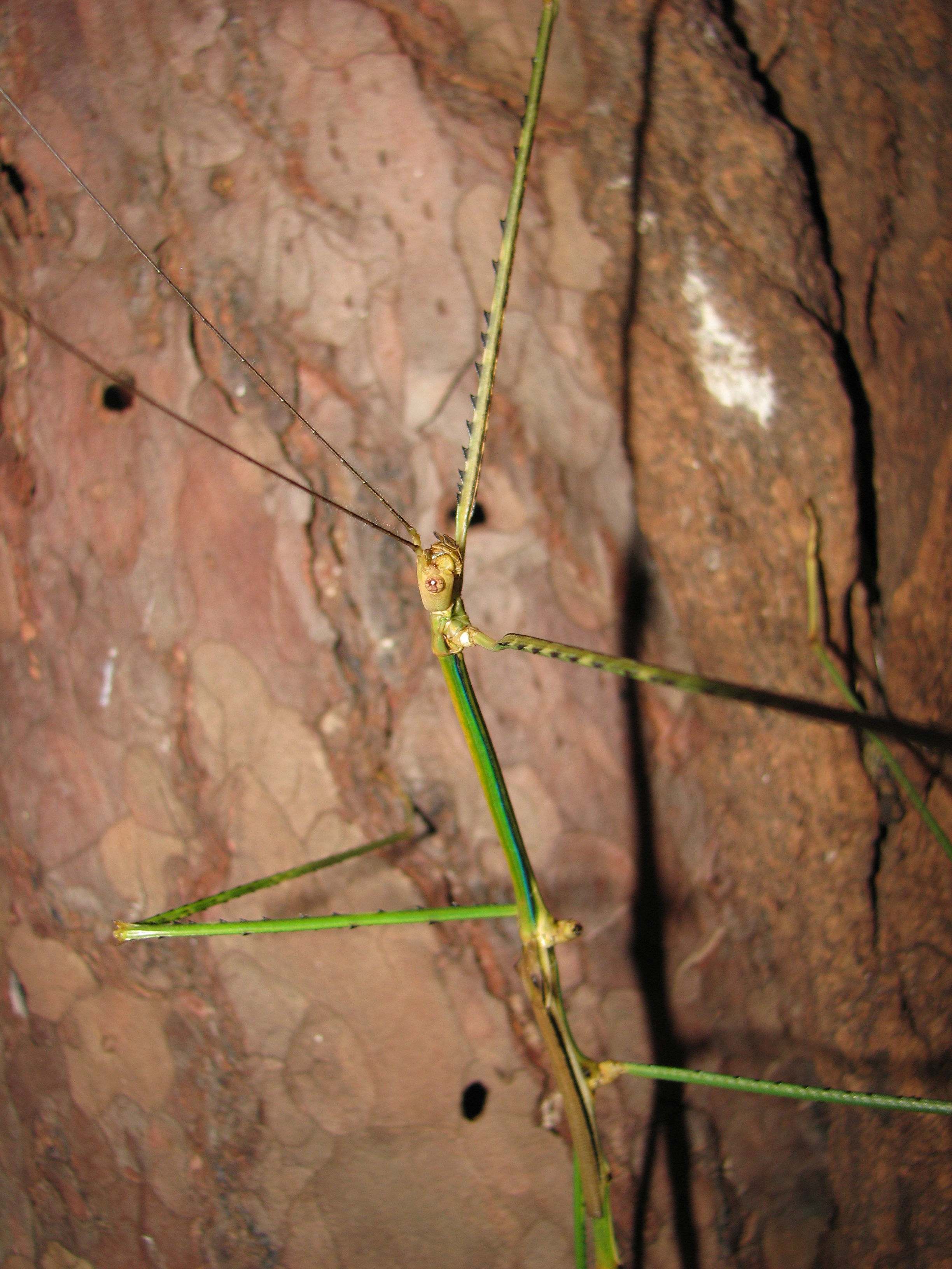 Giant Malayan Stick Insect (Phobaeticus serratipes), portrait of green male